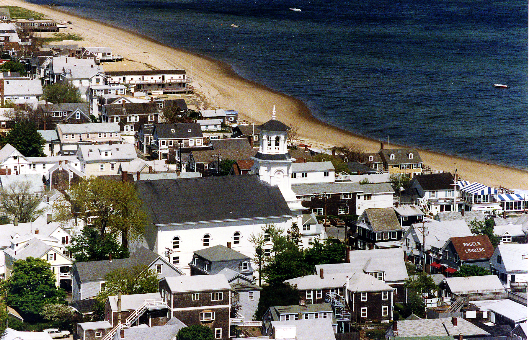 Provincetown, Cape Cod, Massachusetts, USA